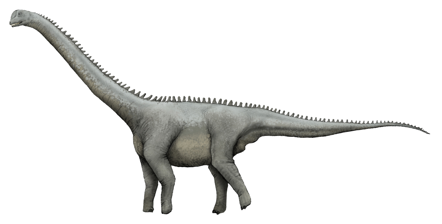 restoration of klamelisaurus